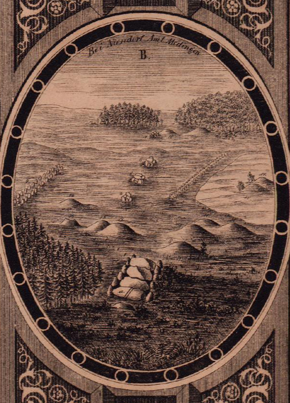 Megalithic tombs near Niendorf I